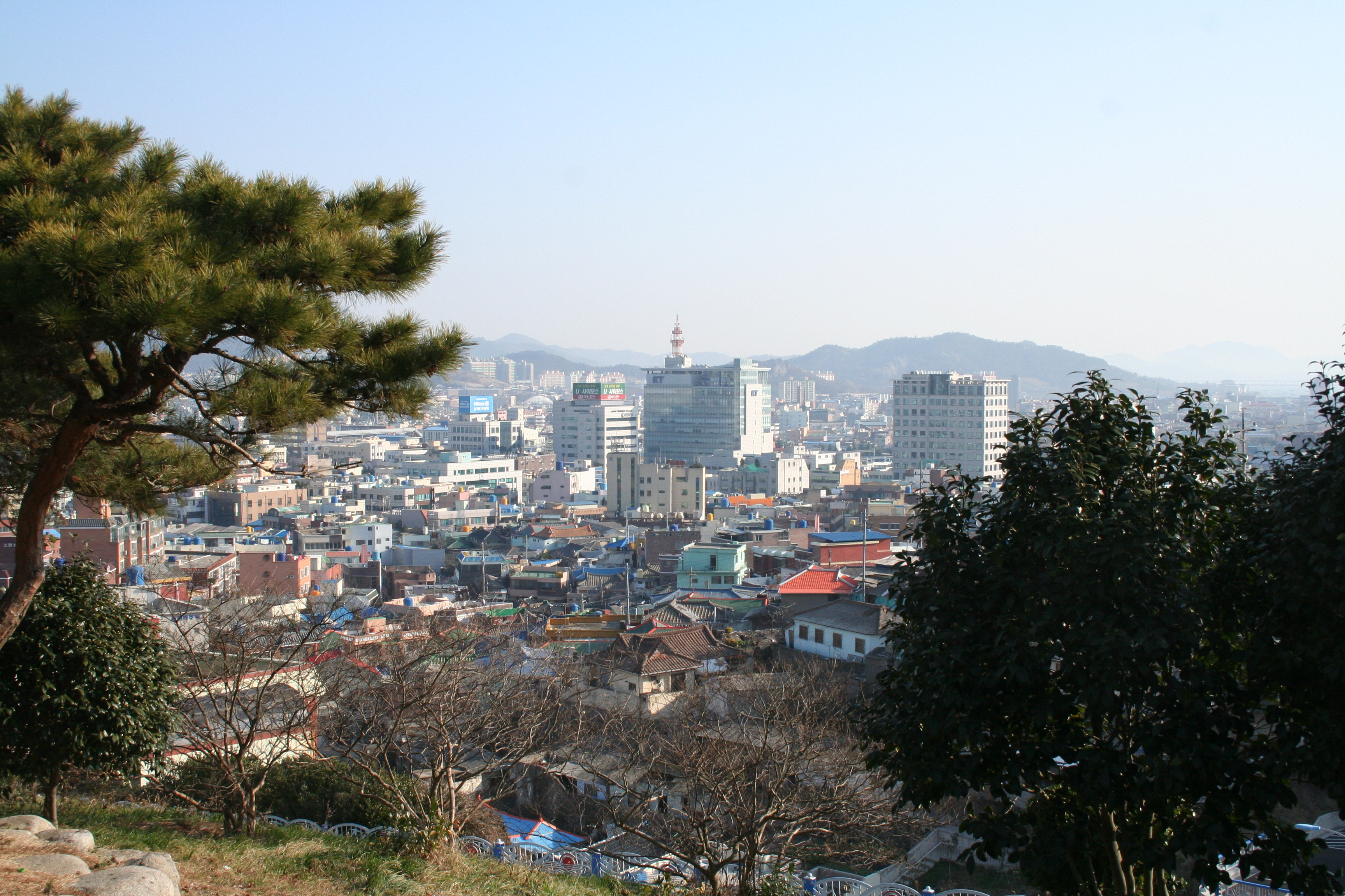 Picture taken by this user and it is released to the public domain